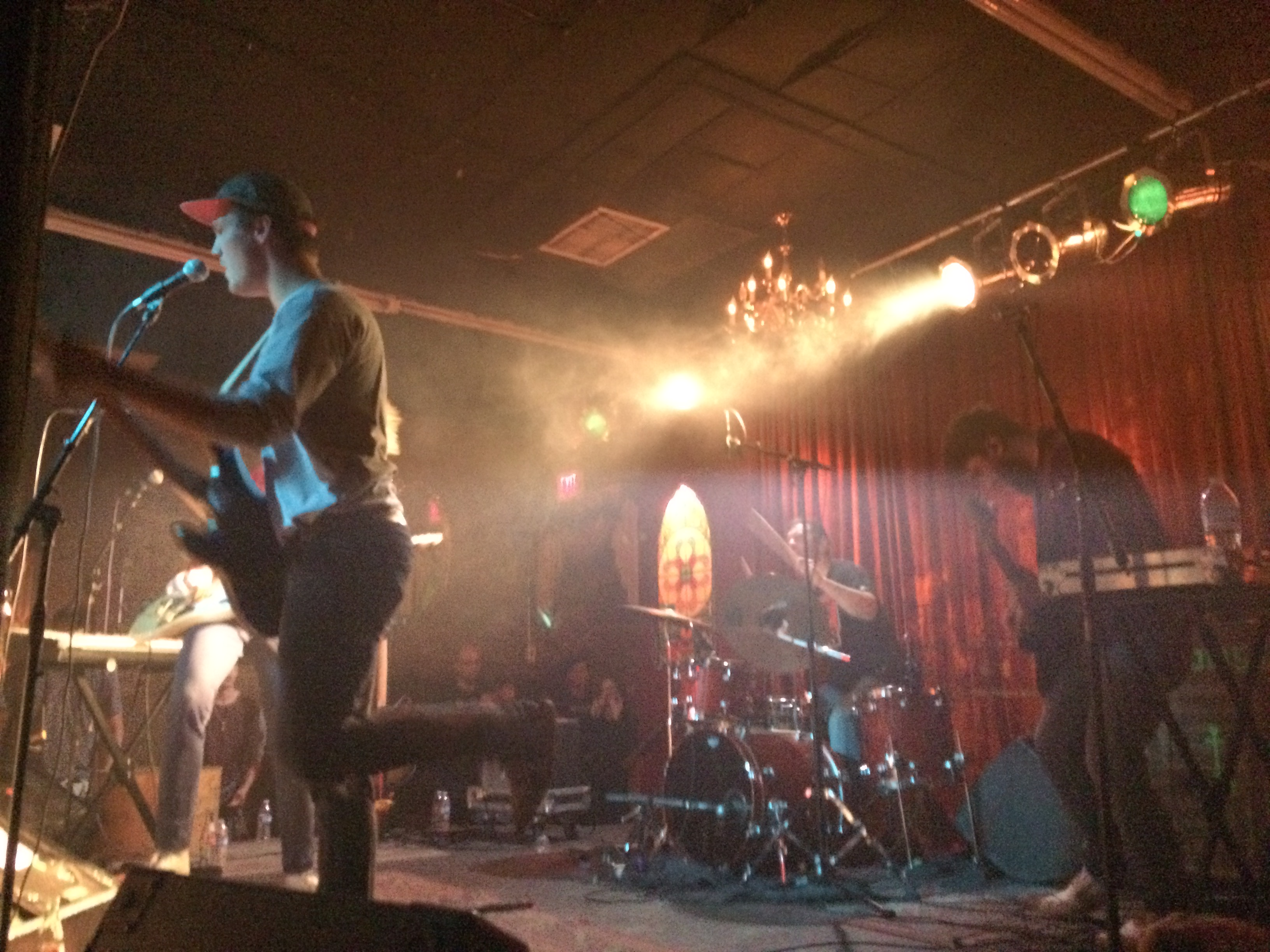 Fictionist is a rock band from Provo, UT. They performed at the Velour Live Music Gallery several times over the course of their career. Notice the Velour's trademark chandelier in the background.